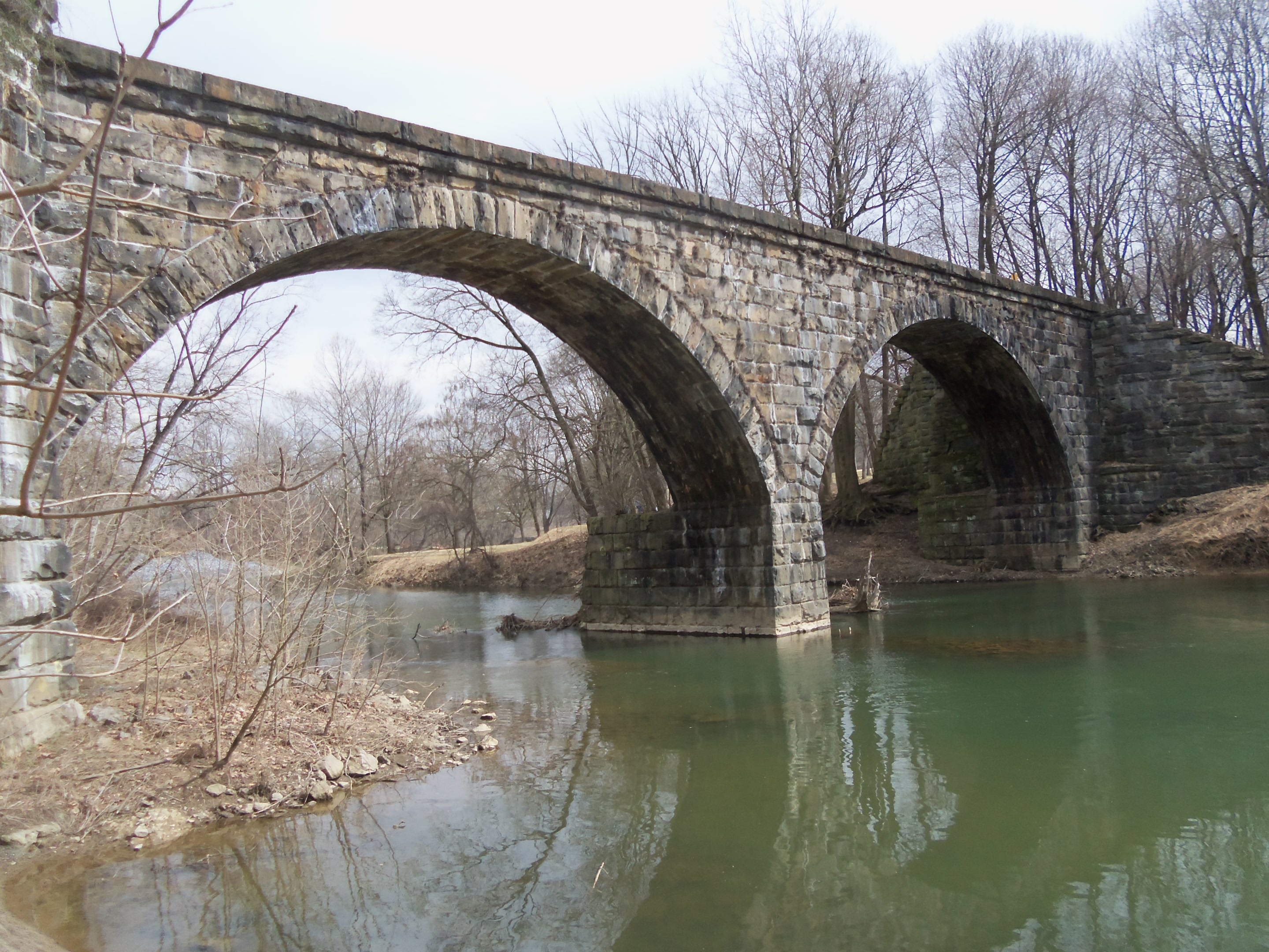 Maiden Creek railroad bridge, located next to where the creek empties into the Schuylkill River in Berks County, Pennsylvania. Facing east.